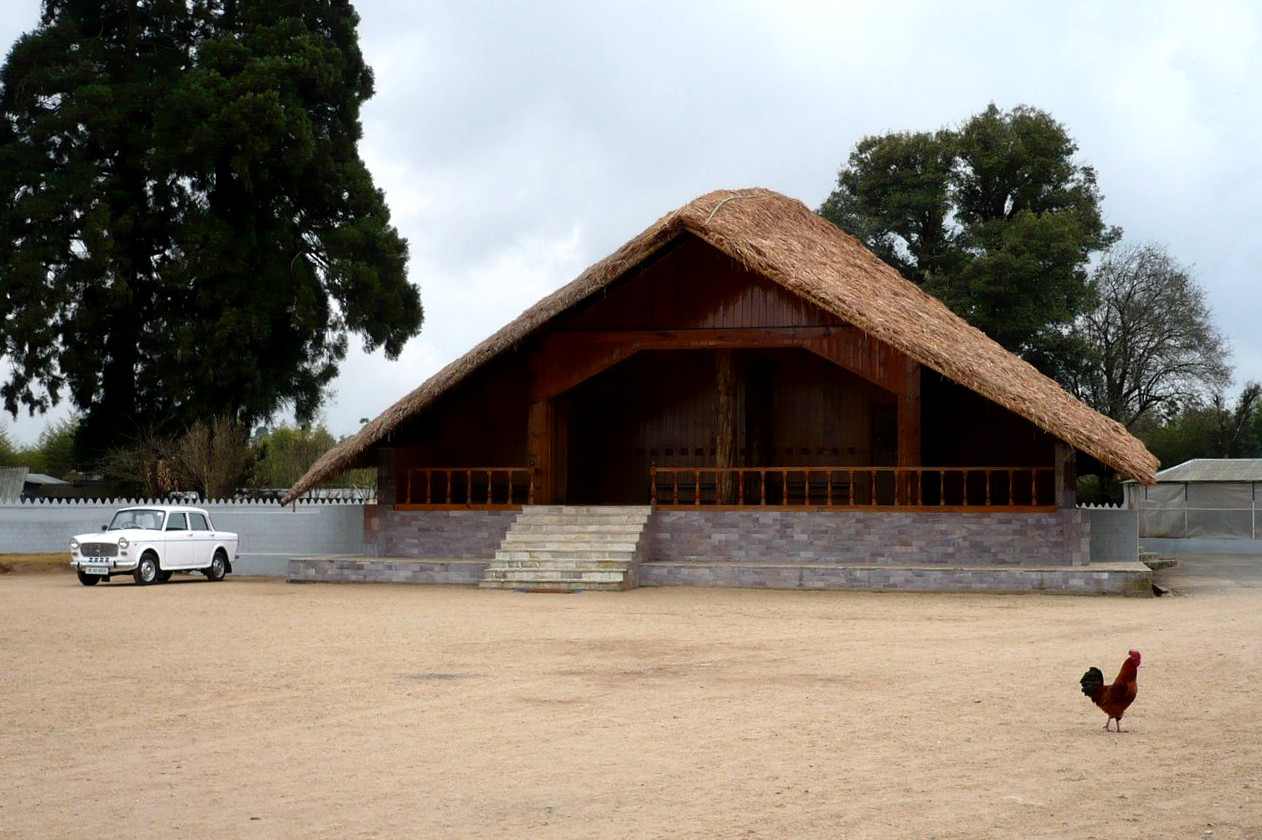 The seat of the Syiem of Khyrim State in Meghalya, India